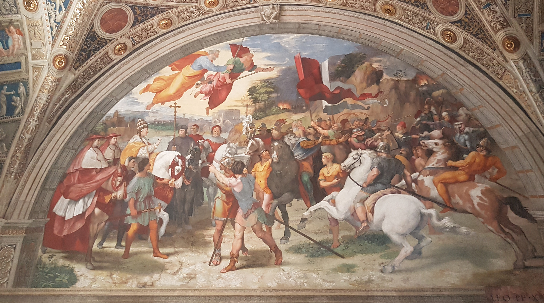 The fresco was painted in 1514 by Raffael and showcases the meeting of Pope Leo I and Attila the Hun.